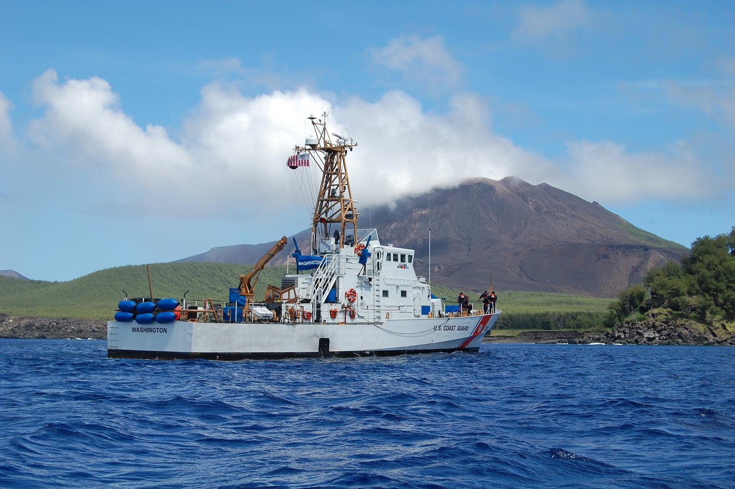 An USCG Island class cutter.